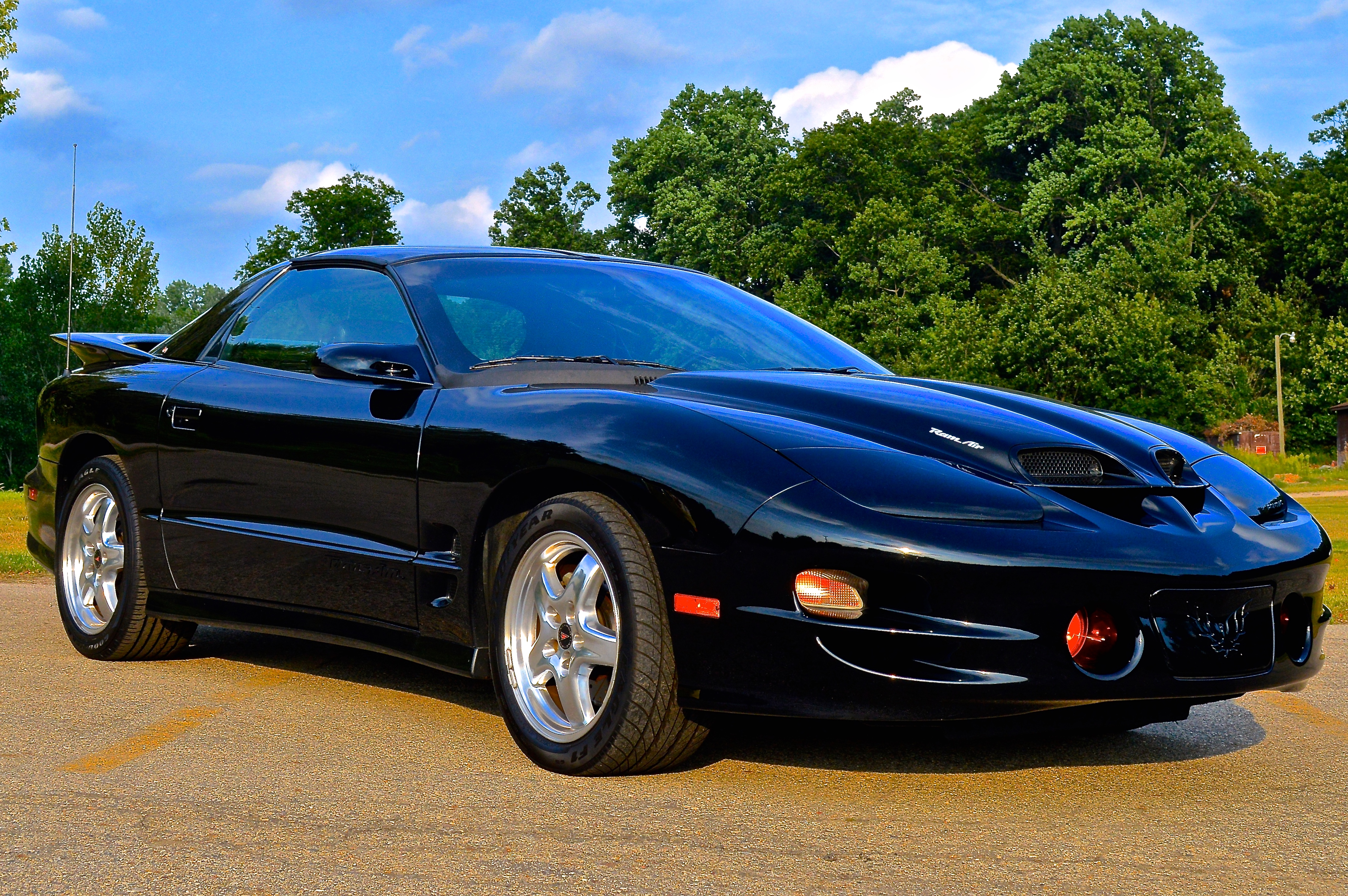 Black 2002 Pontiac Firebird Trans Am WS6.